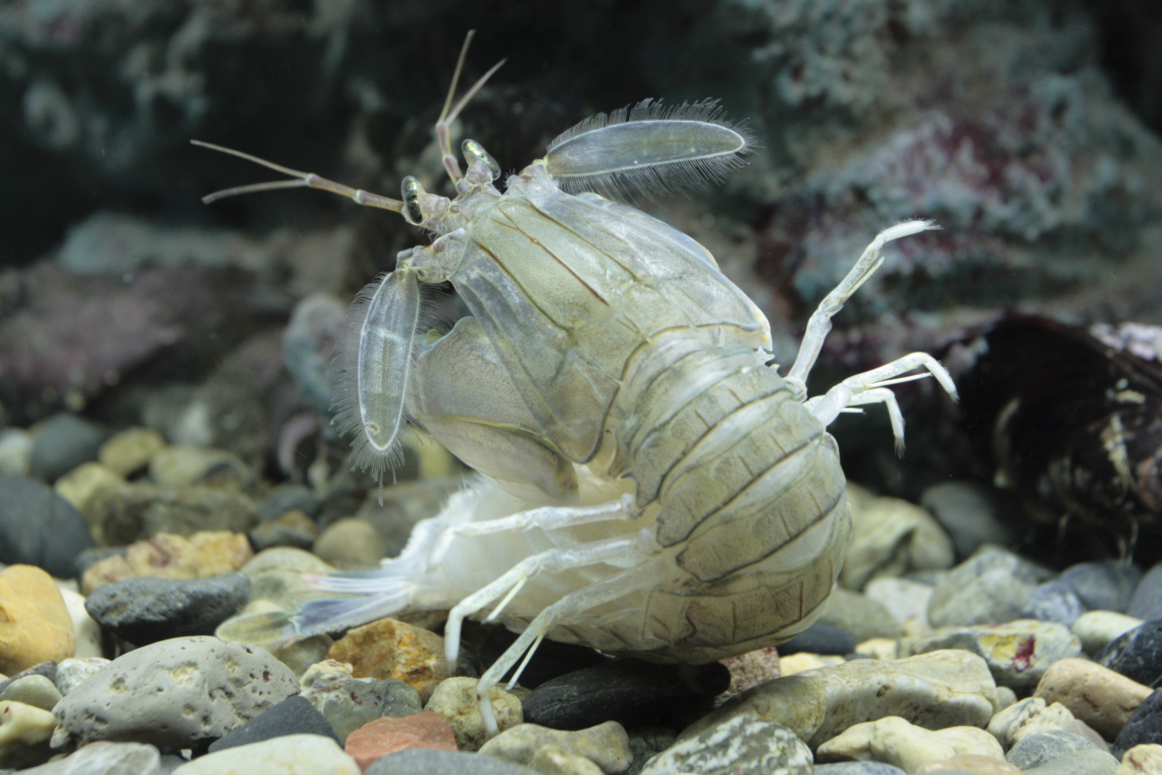 Back of Oratosquilla oratoria. Vladivostokskii Oceanarium, Marine Museum TINRO.